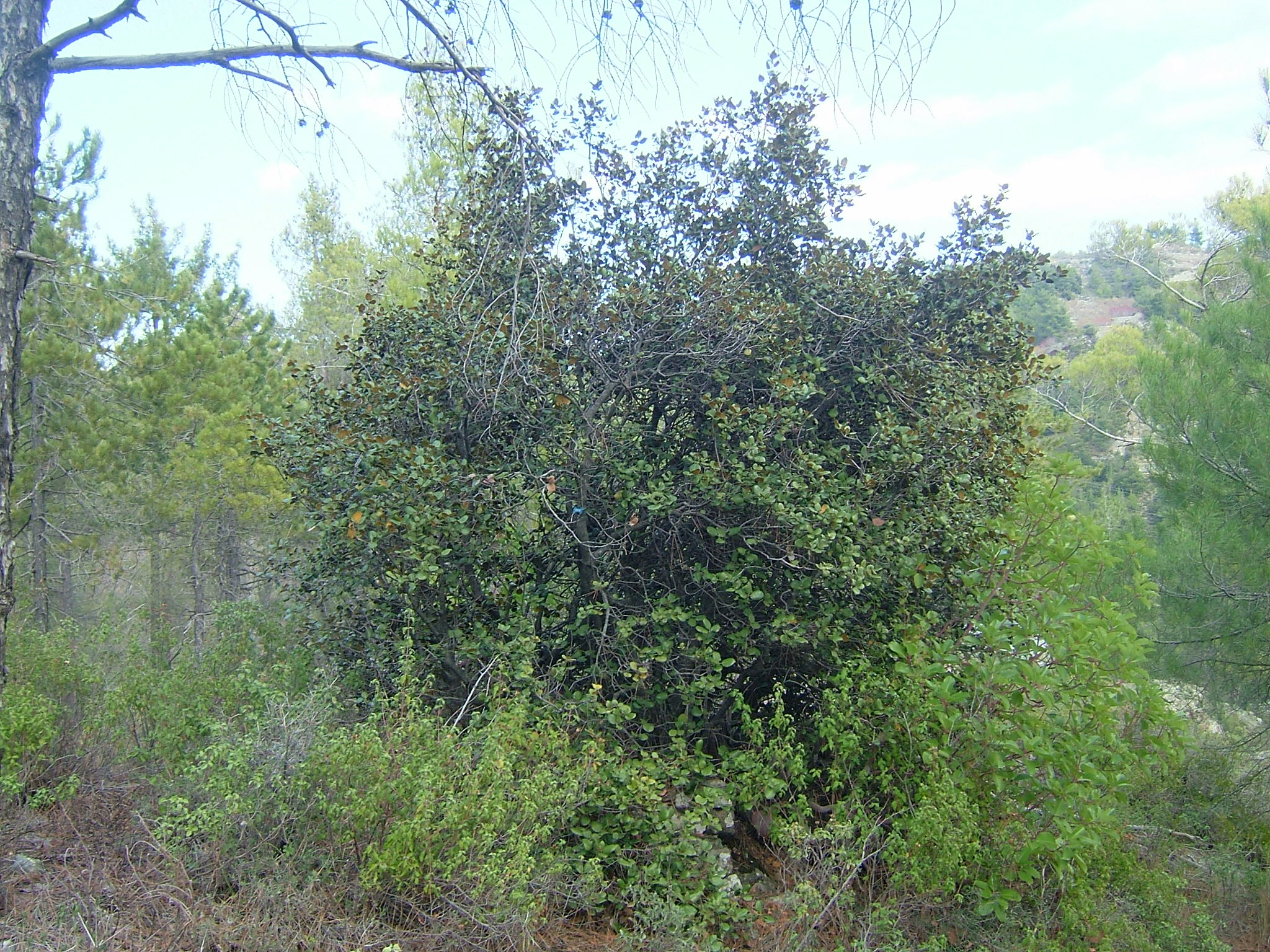 A golden oak shrub in a pine stand near Karvounas, Troödos Mountains in west-central Cyprus.